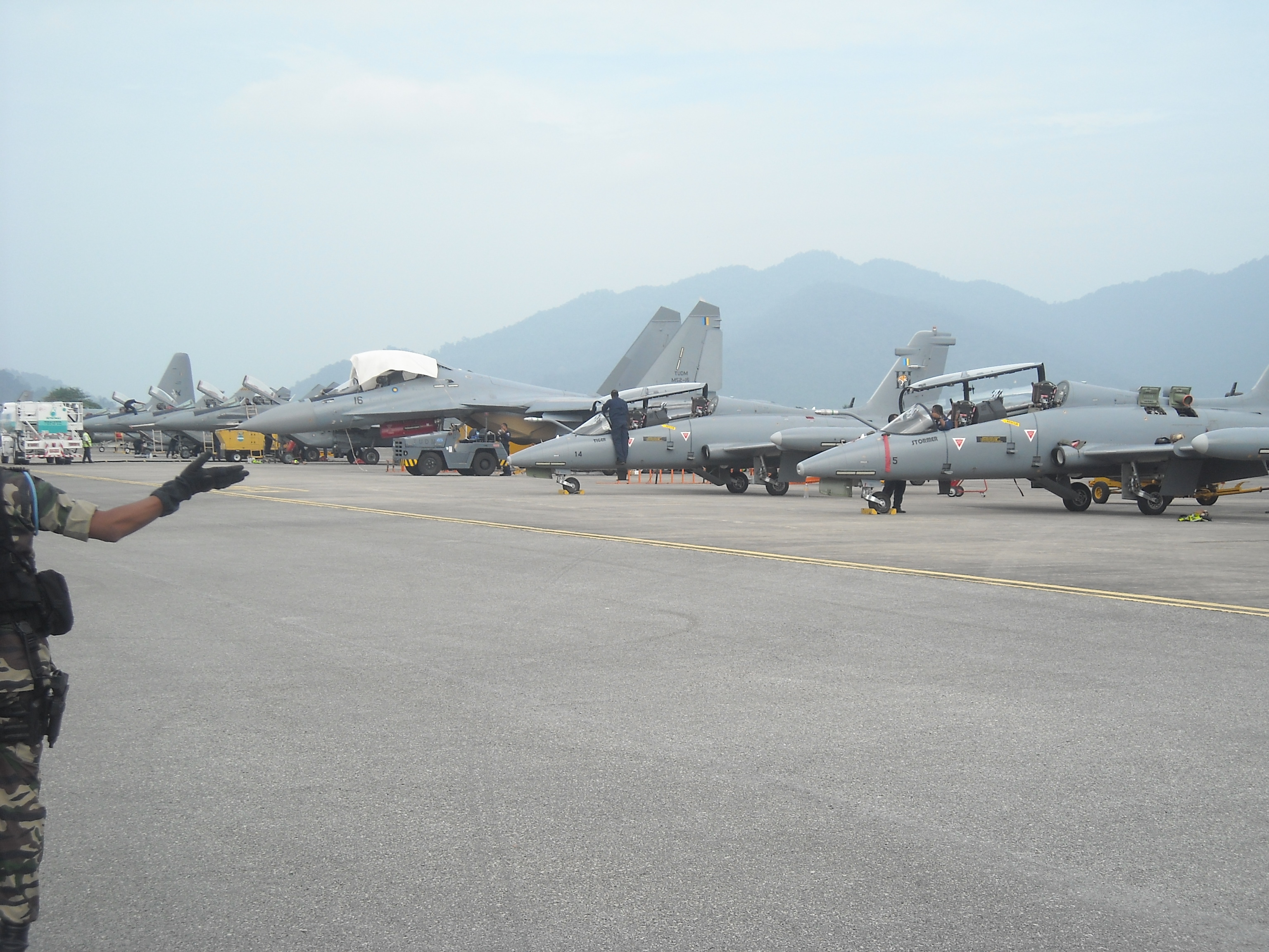 The Russian-made Sukhoi Su-30MKM Flankers serial number M52 and Mig-29s and Aermacchi MB-339s of Royal Malaysian Air Force at Langkawi International Maritime and Aerospace Exhibition 2009 or LIMA 2009 at Langkawi Airport. Taken by me at Langkawi Airport, Langkawi, Kedah, Malaysia.